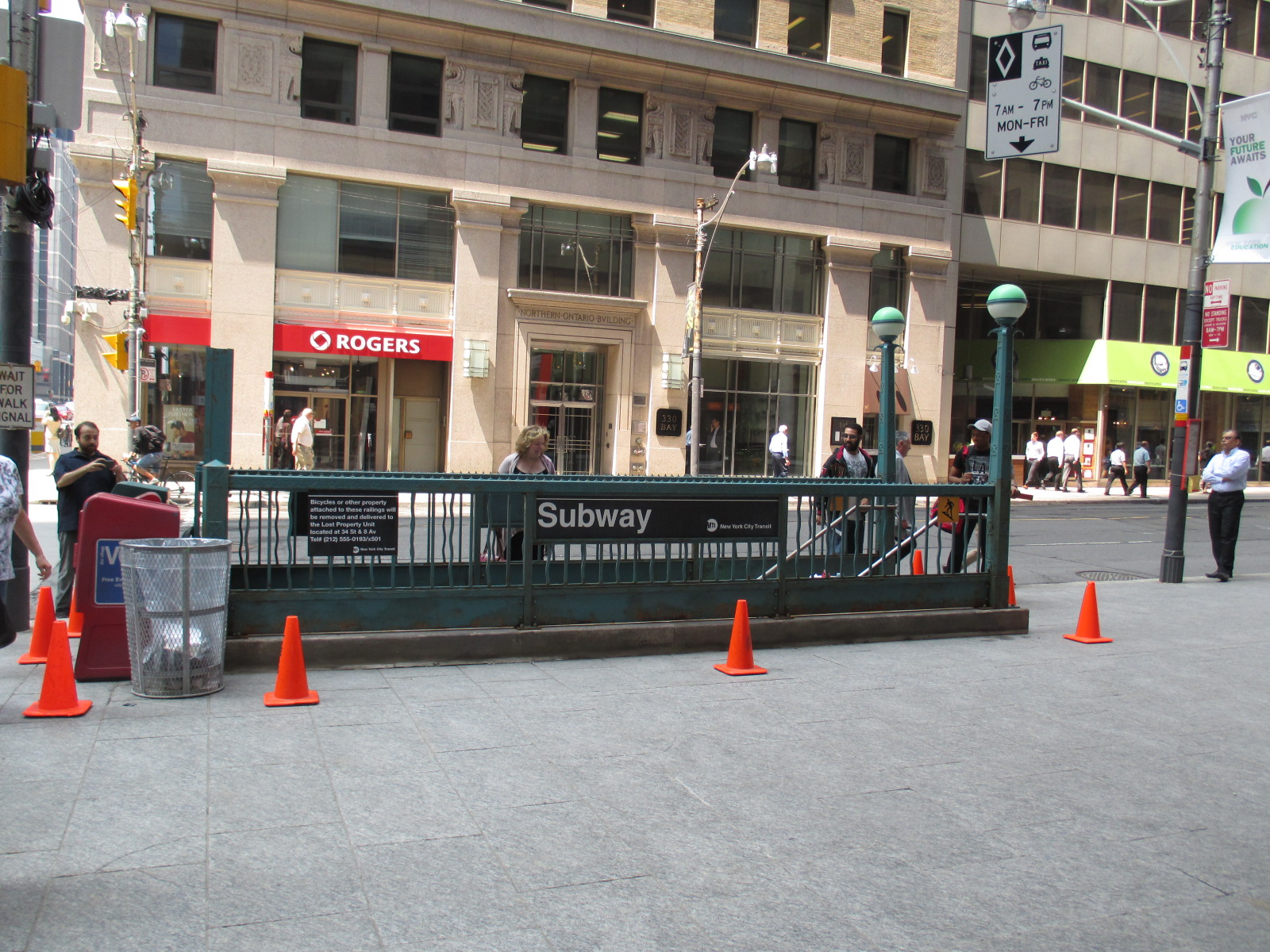 Pixels (2015 film) : Movie prop representing an entrance to the New York Subway. The prop was located at the corner of Bay Street and Adelaide St in downtown Toronto for the filming of the movie "Pixels".